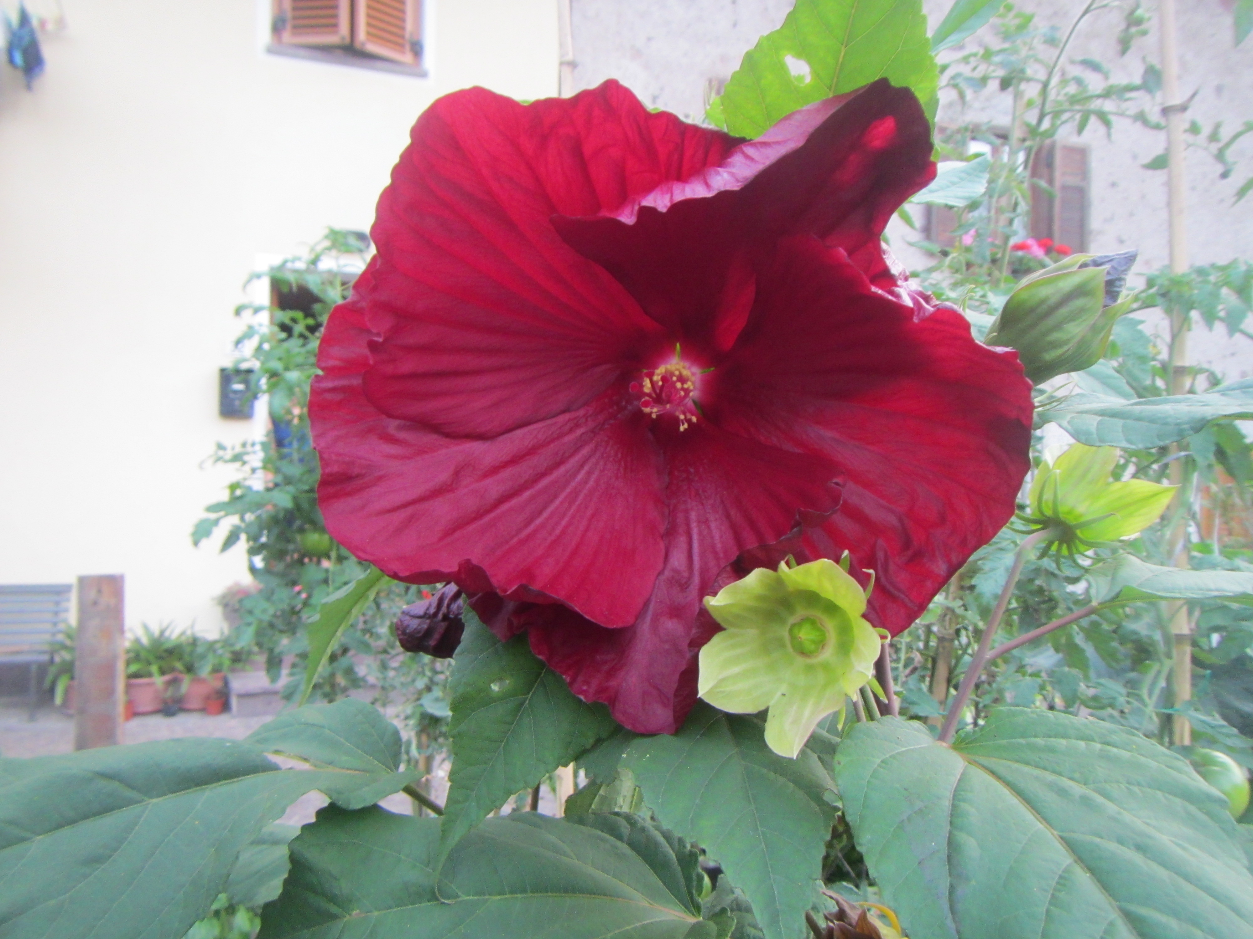 A plant of Hibiscus moscheutos "Disco Belle Red" in a garden of Piazzo, Segonzano